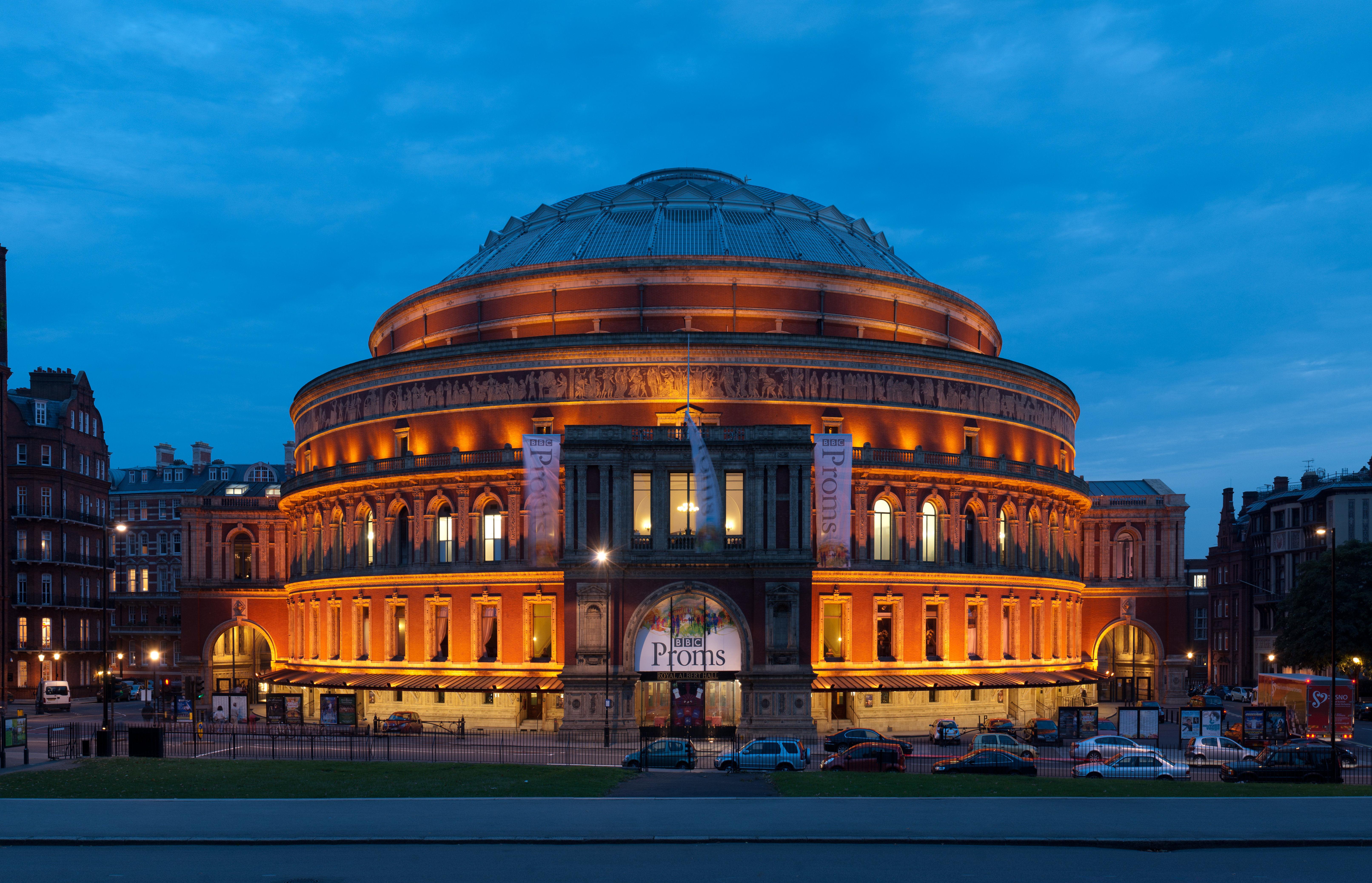 Photograph of the Royal Albert Hall, South Kensington, London.